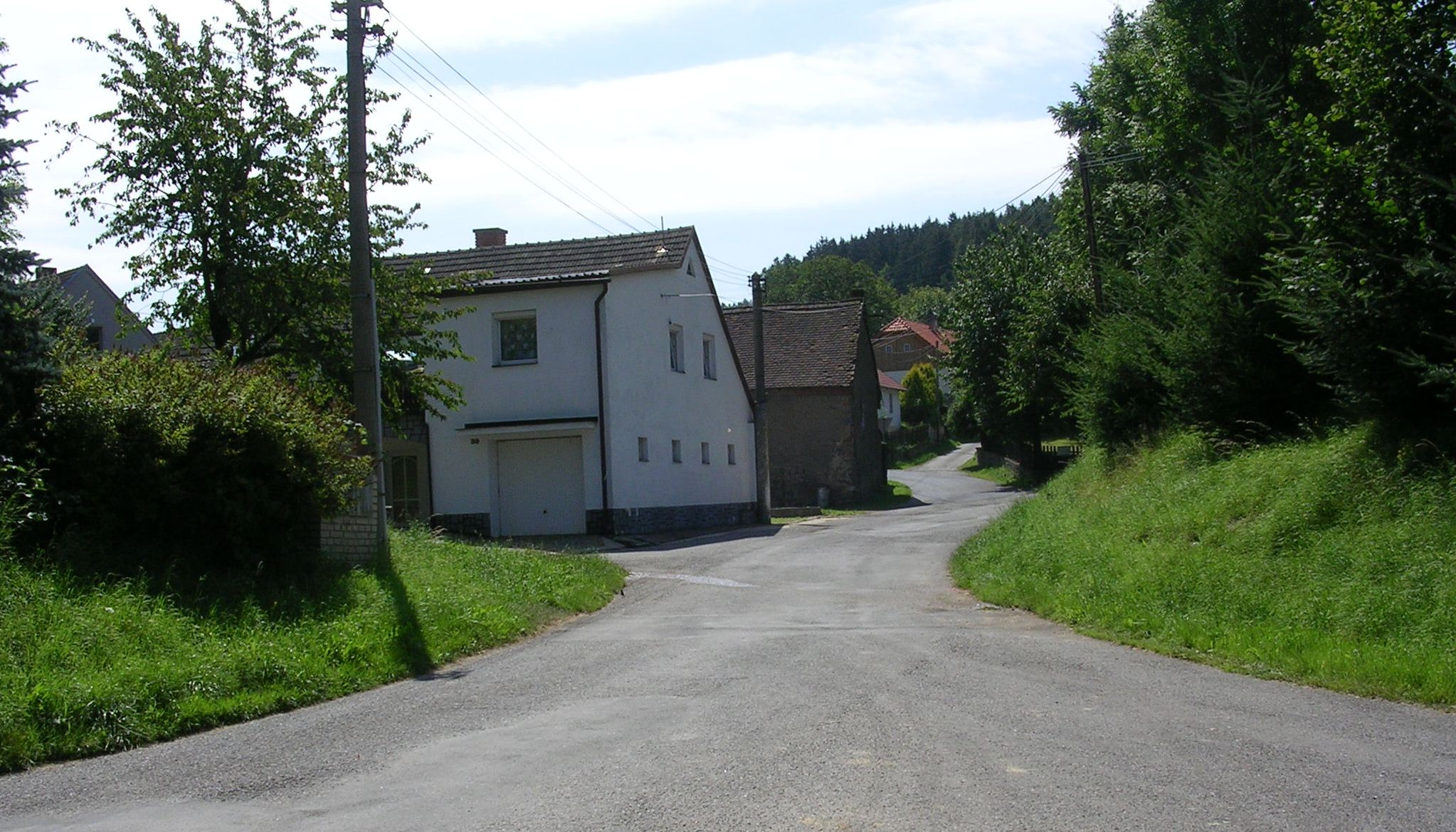 Sedlčany-Oříkov, Příbram District, Central Bohemian Region, the Czech Republic.